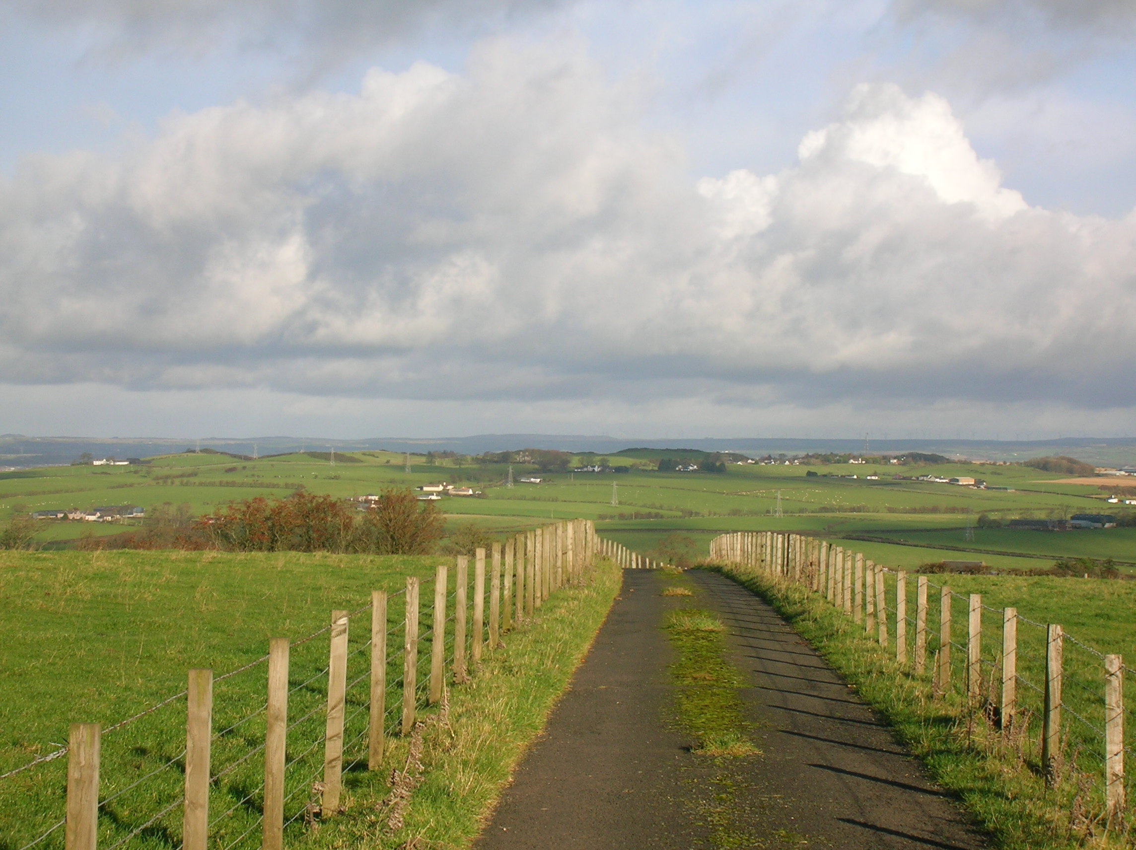 View East from Wallace's Tower of Craigie Village, South Ayrshire, Scotland